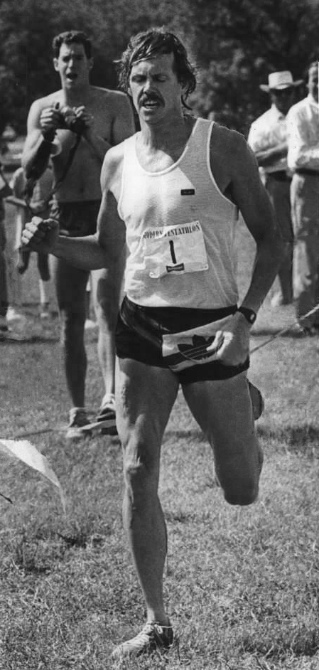 1988 Press Photo Pentathlon winner Bob Nieman